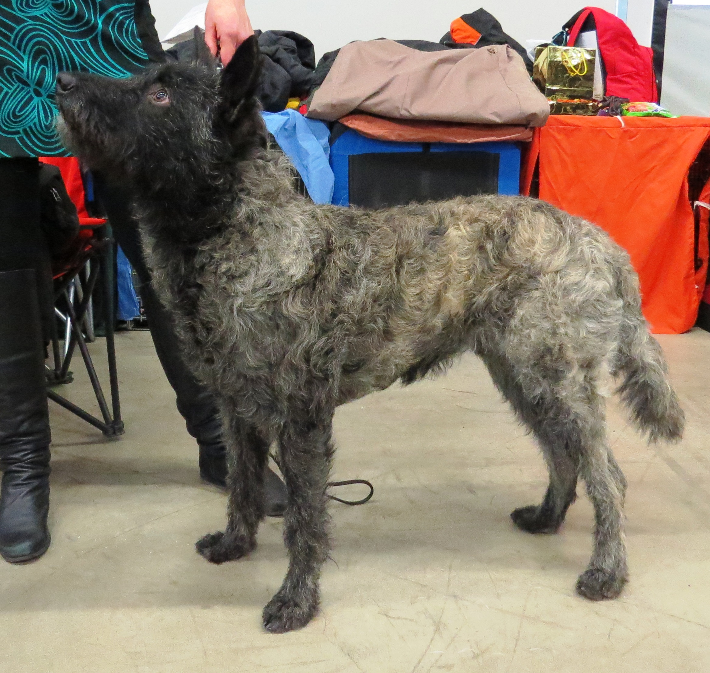 Koira 2013 Helsinki 13-15/12/2013